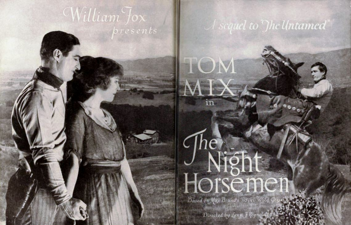 Advertisement for the American western film The Night Horsemen (1921) with Tom Mix and May Hopkins, on pages 20 and 21 of the October 1, 1921 Exhibitors Herald.